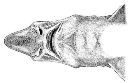 Pentanchus profundicolus, illustration accompanying species description